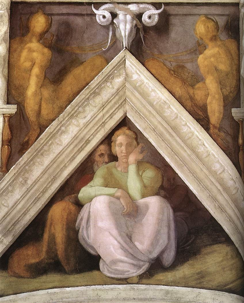 Sistine Chapel, fresco Michelangelo, a "spandrel" in the Ancestors of Christ series